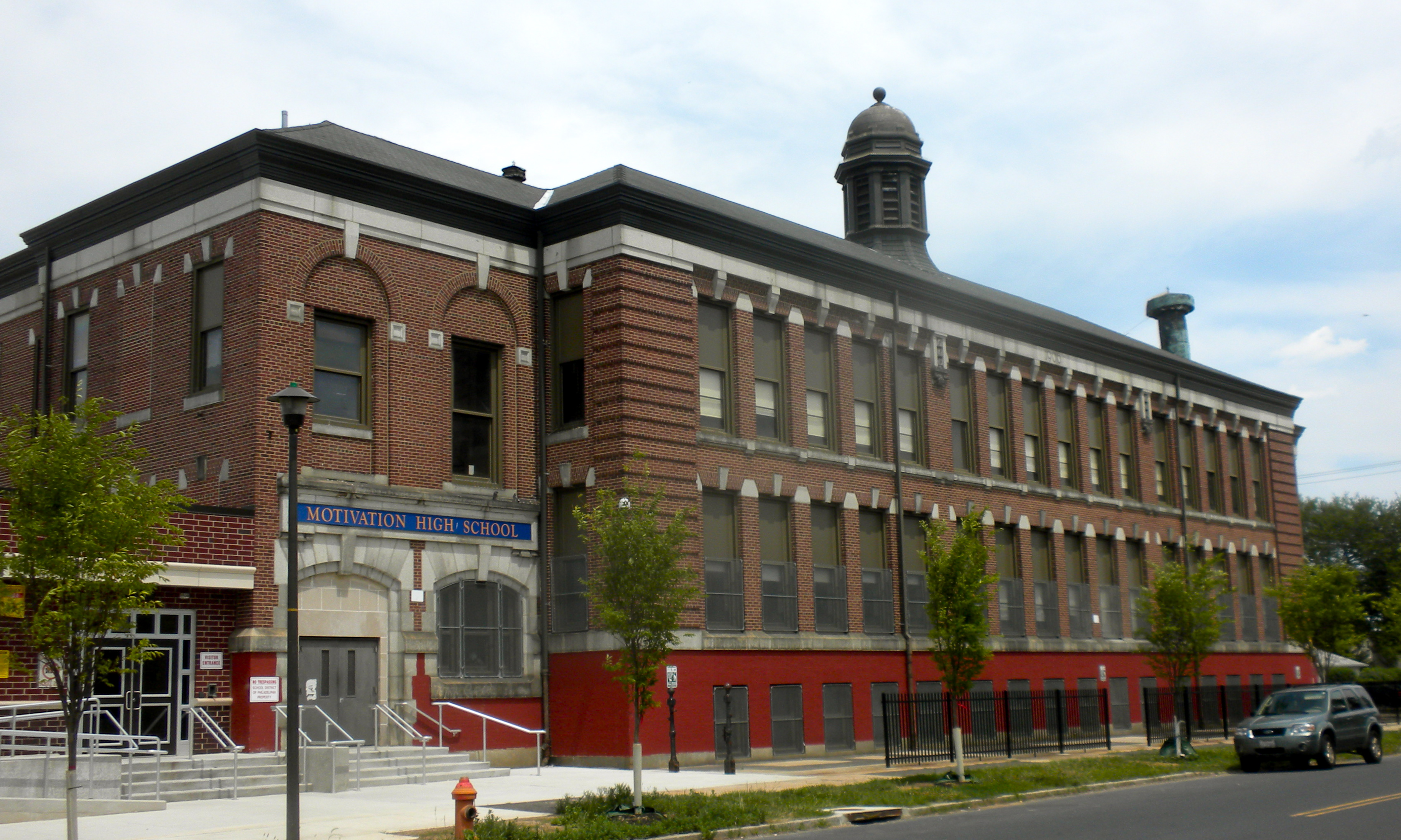 Thomas Buchanan Read School in SW Philadelphia on NTHP since December 4, 1986. At 78th Street and Buist Avenue in the Elmwood Park neighborhood